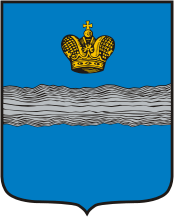 Kaluga (Kaluga oblast), coat of arms (1777)